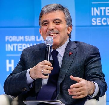 Abdullah Gül speaking at the Halifax International Security Forum 2014